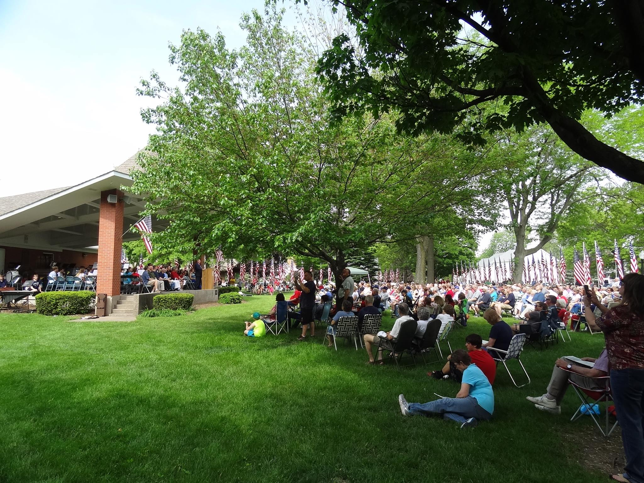 Memorial Day 2014, Geneseo, Illinois City Park